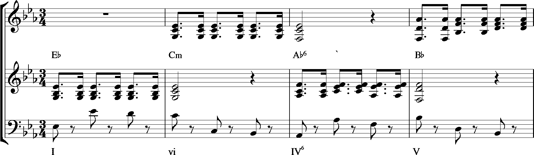 J. S. Bach Cantata Wachet auf, ruft uns die Stimme, BWV140, orchestral introduction to the opening chorus. (About the number BWV141 in the file name, see Das ist je gewißlich wahr.)